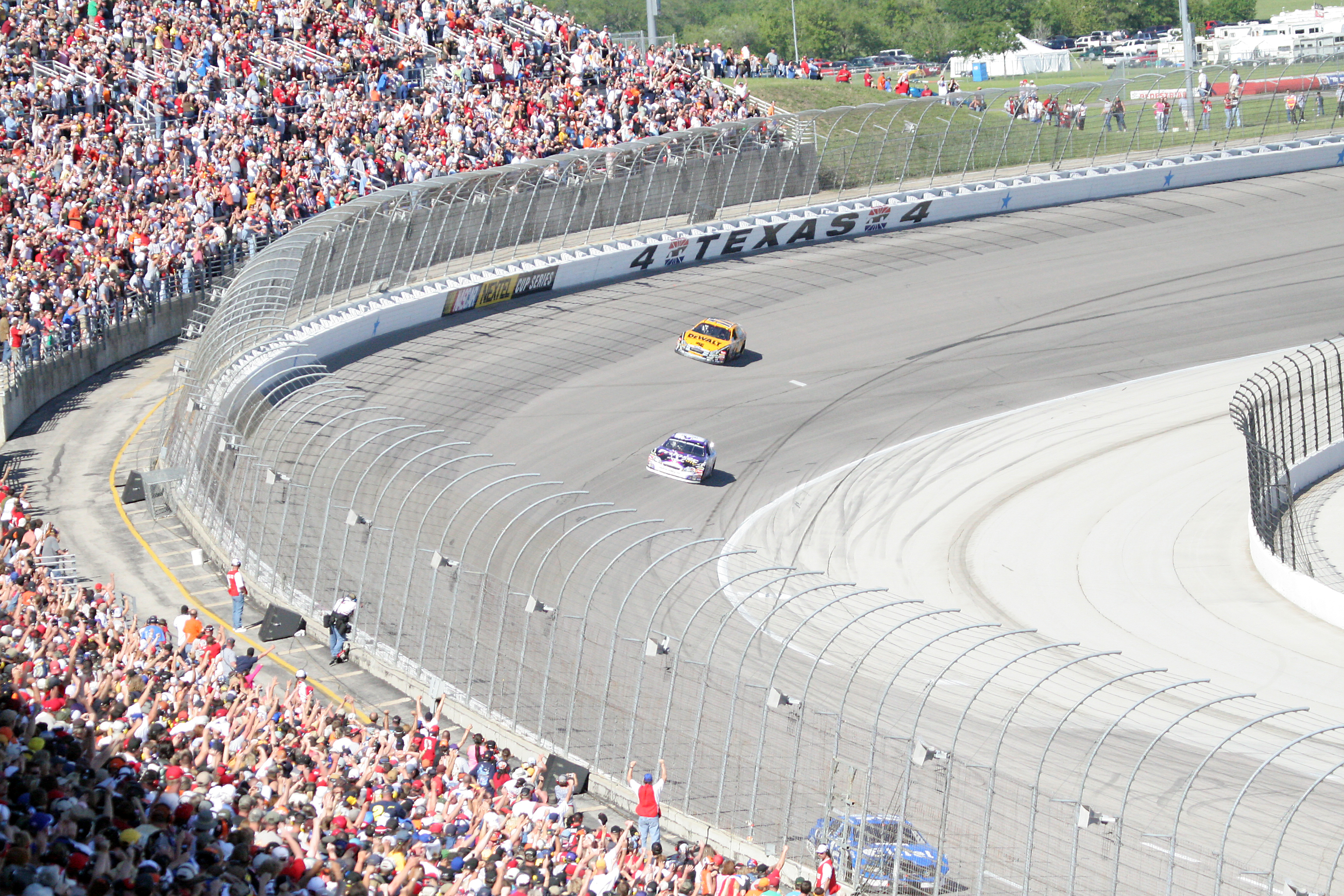 Jeff Burton (purple & white car) makes the last turn headed for the finish line and victory at the 2007 Samsung 500. Matt Kenseth (yellow car) finishes second. Ryan Newman (blue car) is visible at the bottom of the picture; he trails Burton by almost a full lap.